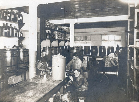 A. Stelling in Valby, Copenhagen. Danish paint and lacquer factory, est. 1860.